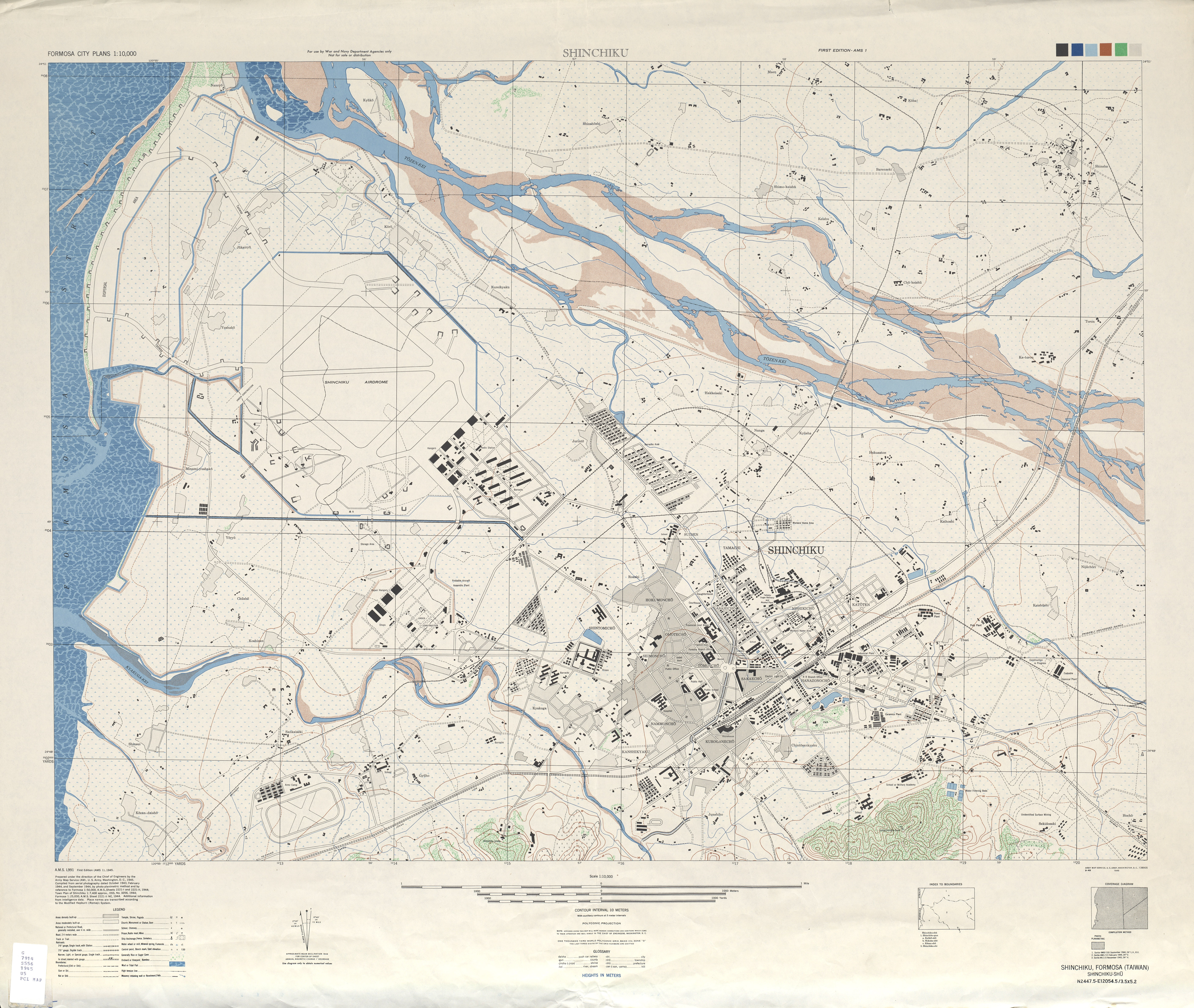 Hsinchu City 1945